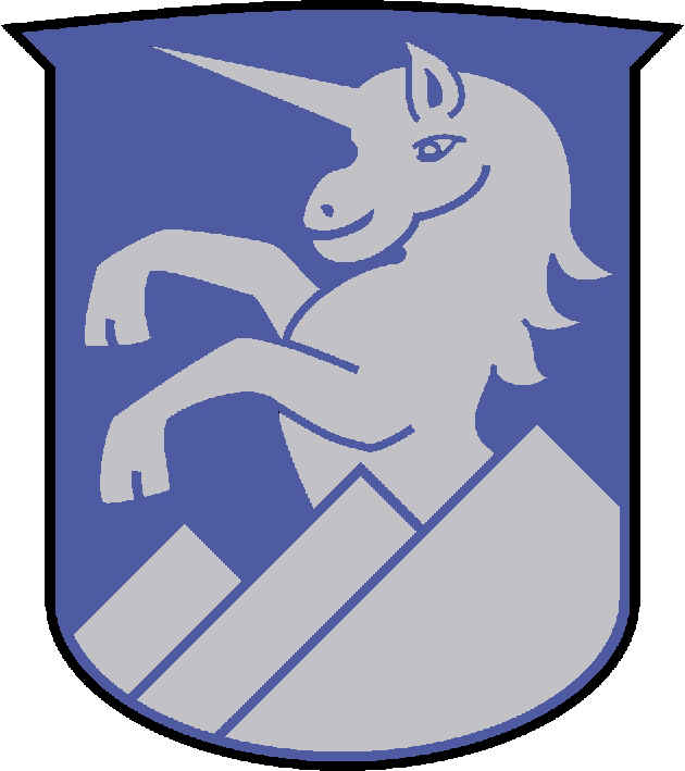 Logo of Affing, Aichach-Friedberg, Swabia, Bavaria, Germany.